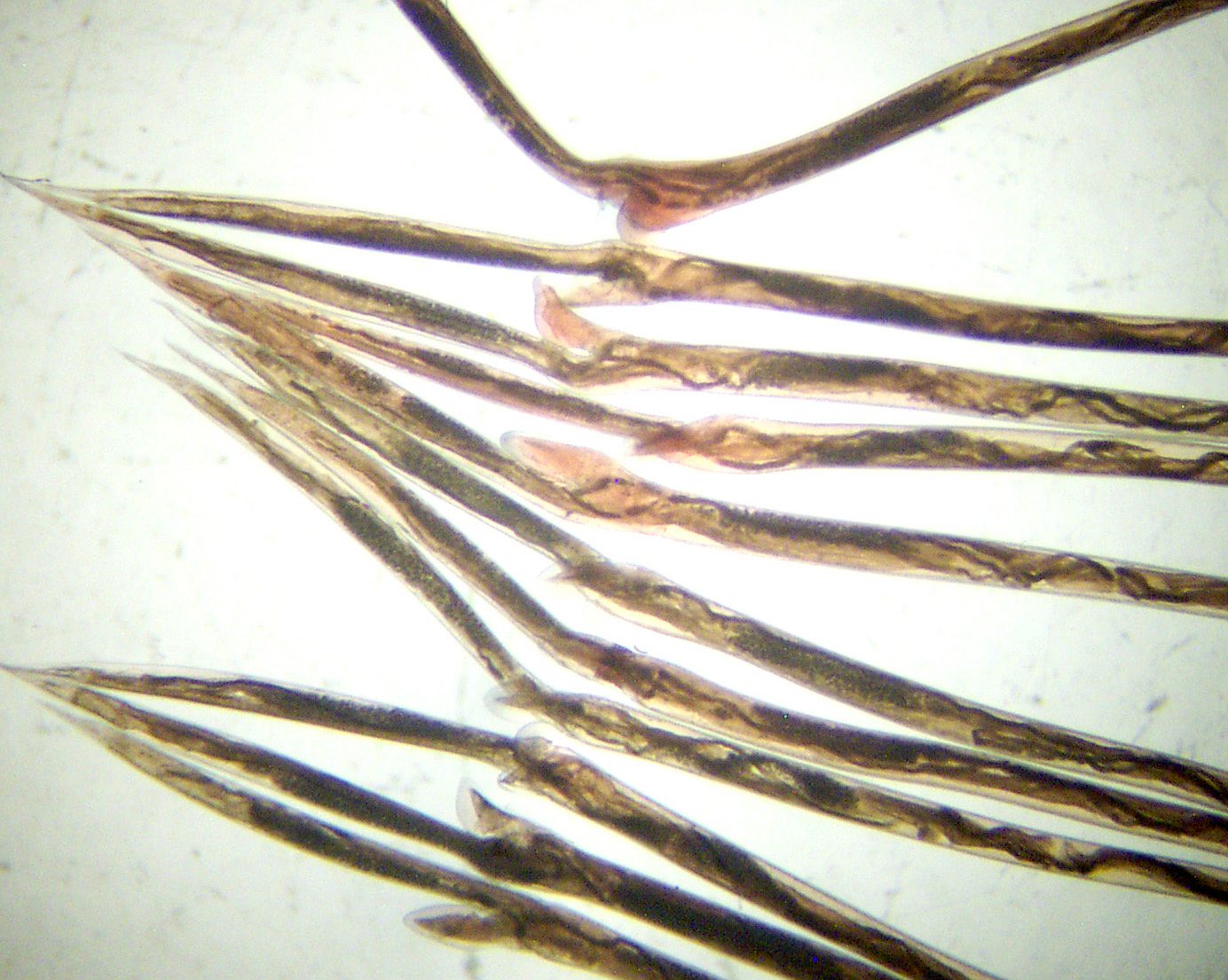 Barber's pole worm is a roundworm that grows up to 30 millimetres long and sucks blood from the lining of the sheep's stomach,causing anaemia. Symptoms include swelling under thejaw (bottle jaw), weight loss and reduced wool growth and tensile strength. In lactating ewes, milk production can decline. More severe infections can prove fatal. Female worms have a red and whitestriped appearance, from which the common name 'barber's pole' worm is derived. Barber's pole worms are the highest egg producers of all sheep worms — females can lay up to 10,000 eggs per day.